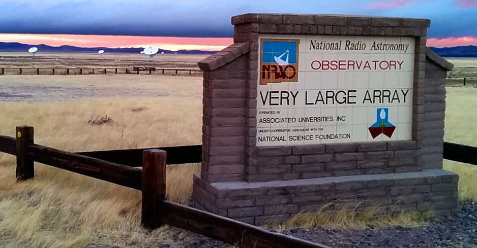 Entrance sign of the Very Large Array out of Socorro New Mexico (USA)